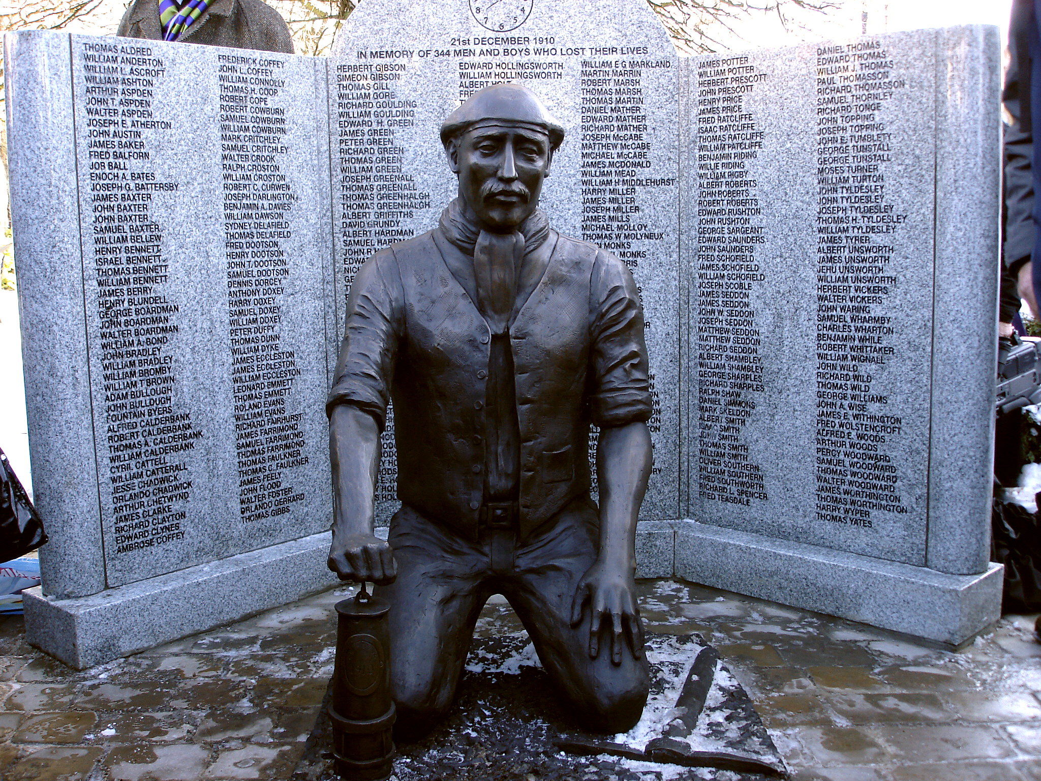 Memorial the victims of the Pretoria Pit Disaster. Bronze statue of kneeling miner in front of granite screen. Sculpture by Jane Robbins.